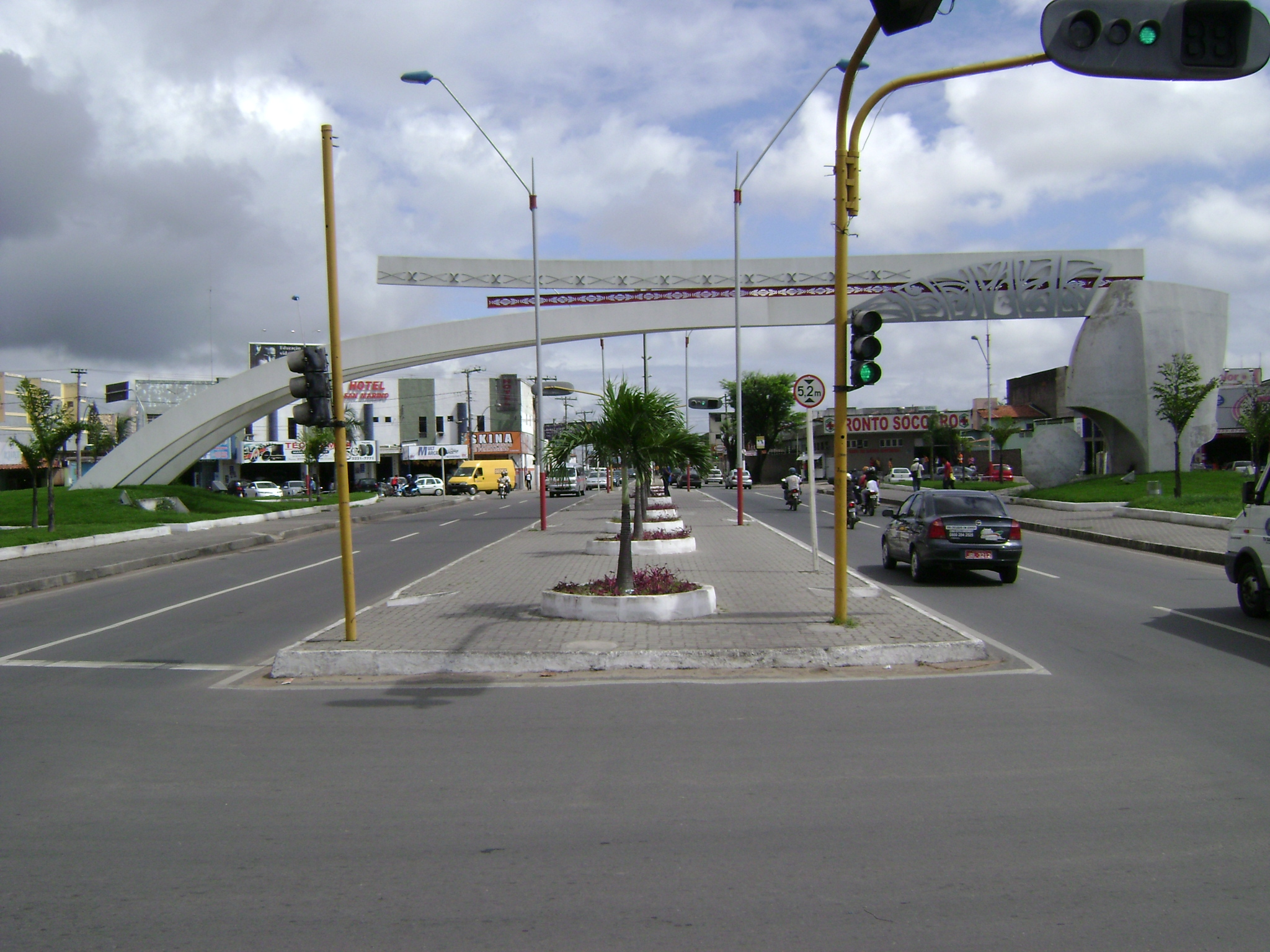 Monumento na Avenida Presidente Dutra, em Feira de Santana, Bahia, Brasil.